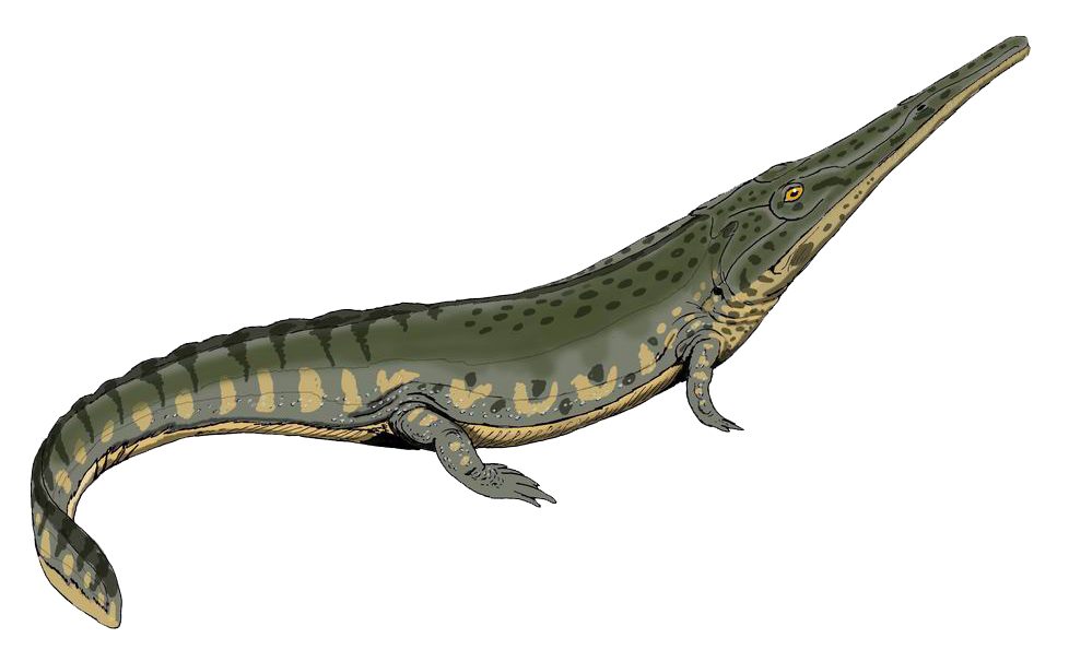 Aphaneramma, my own work